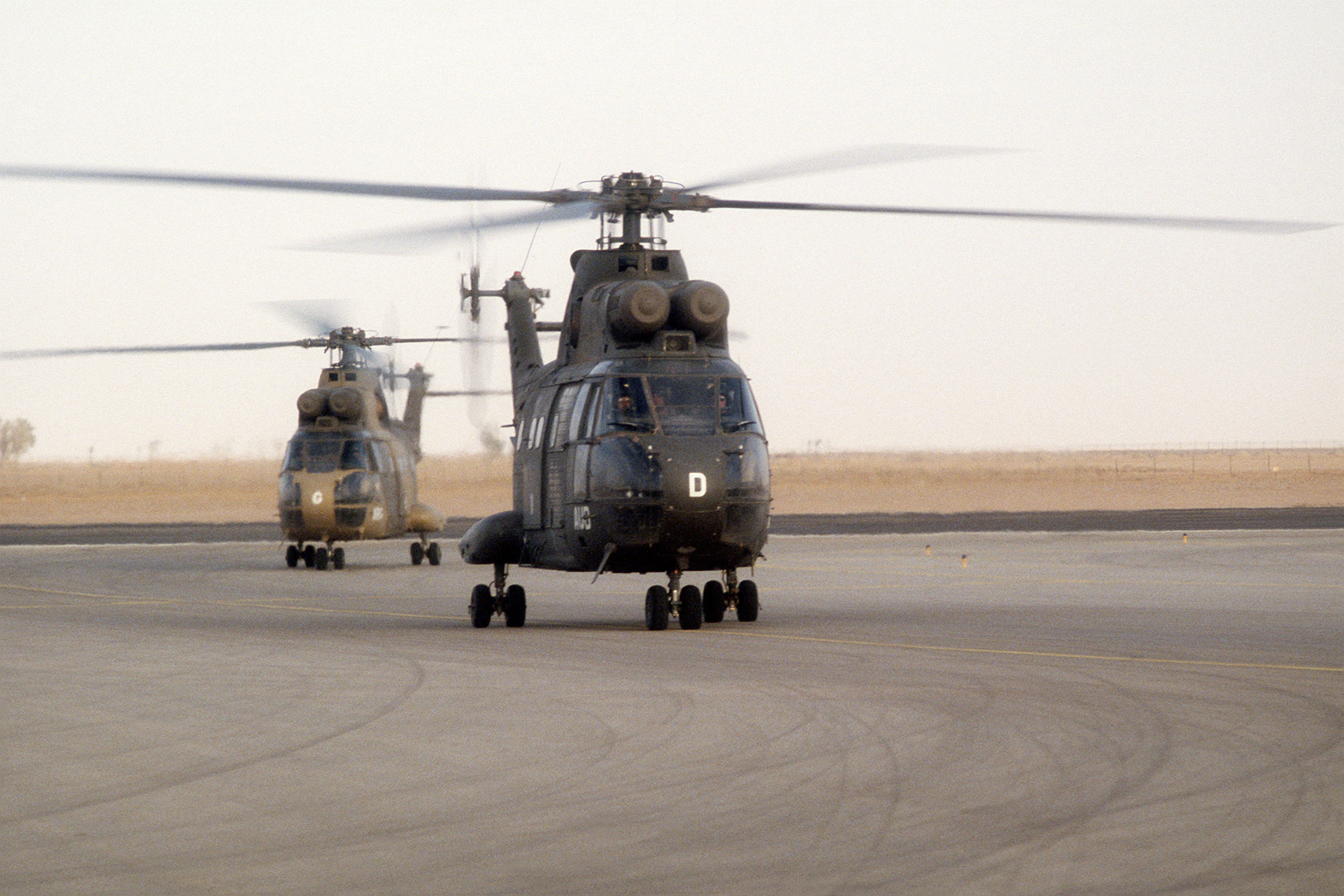 SA.330 Puma helicopters of the French army taxi on an airfield after completing a mission during Operation Desert Shield.